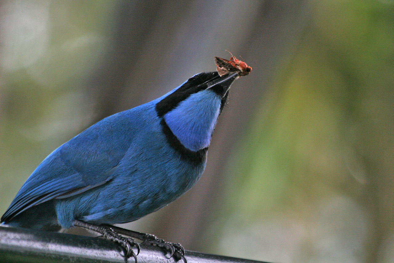 Turquoise jay (Cyanolyca turcosa) photographed by Tad Boniecki in Ecuador, Bellavista cloudforest, February 2007. Article Turquoise Jay